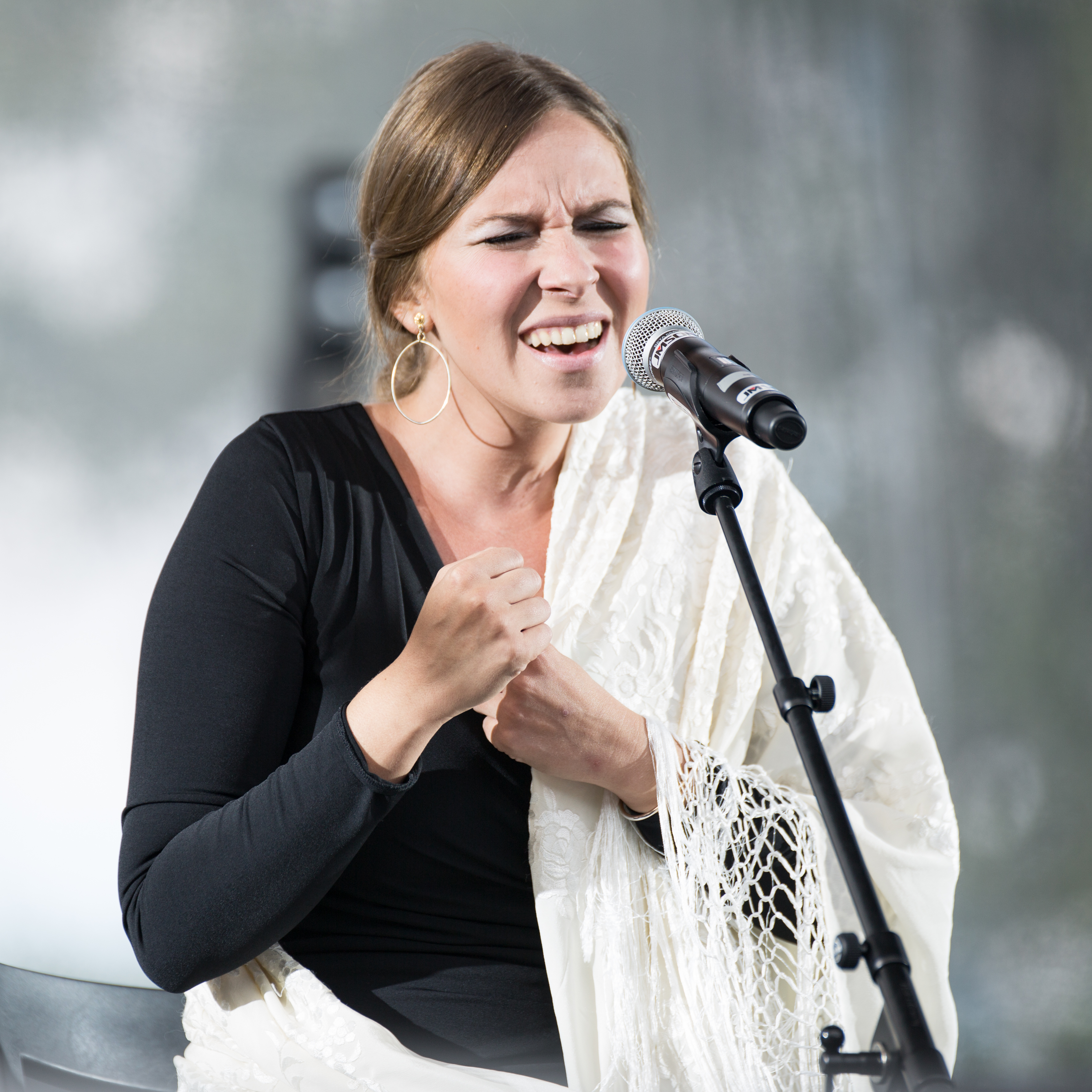 Rocio Marquez (Spain) at Rio Loco 2015